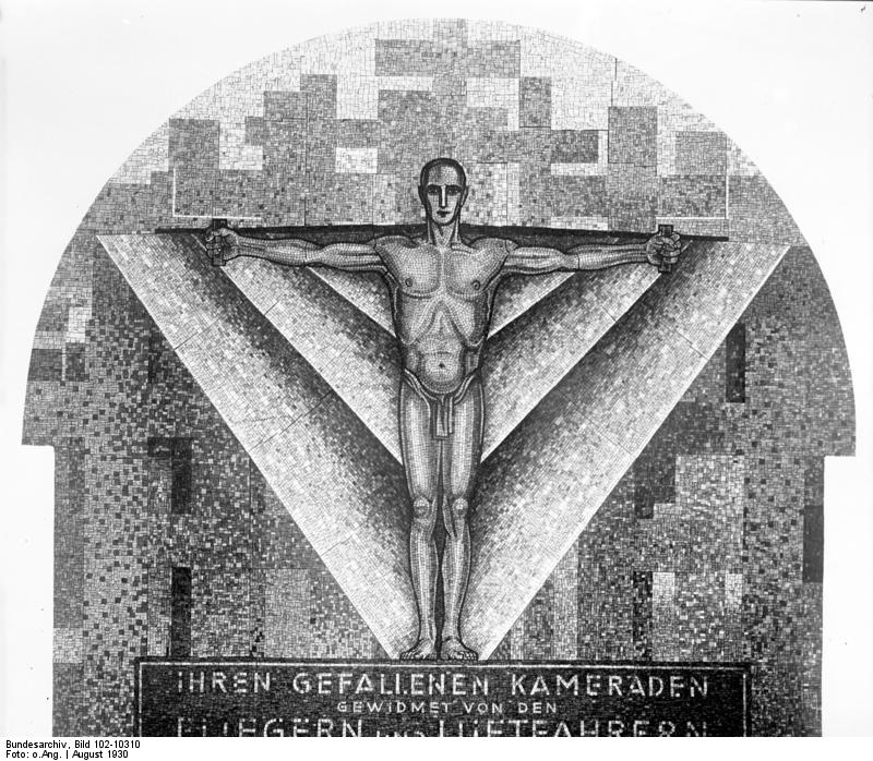 Mosaic-monument to fallen comrades aviators and pilots (he was placed in one of the bays between the towers).